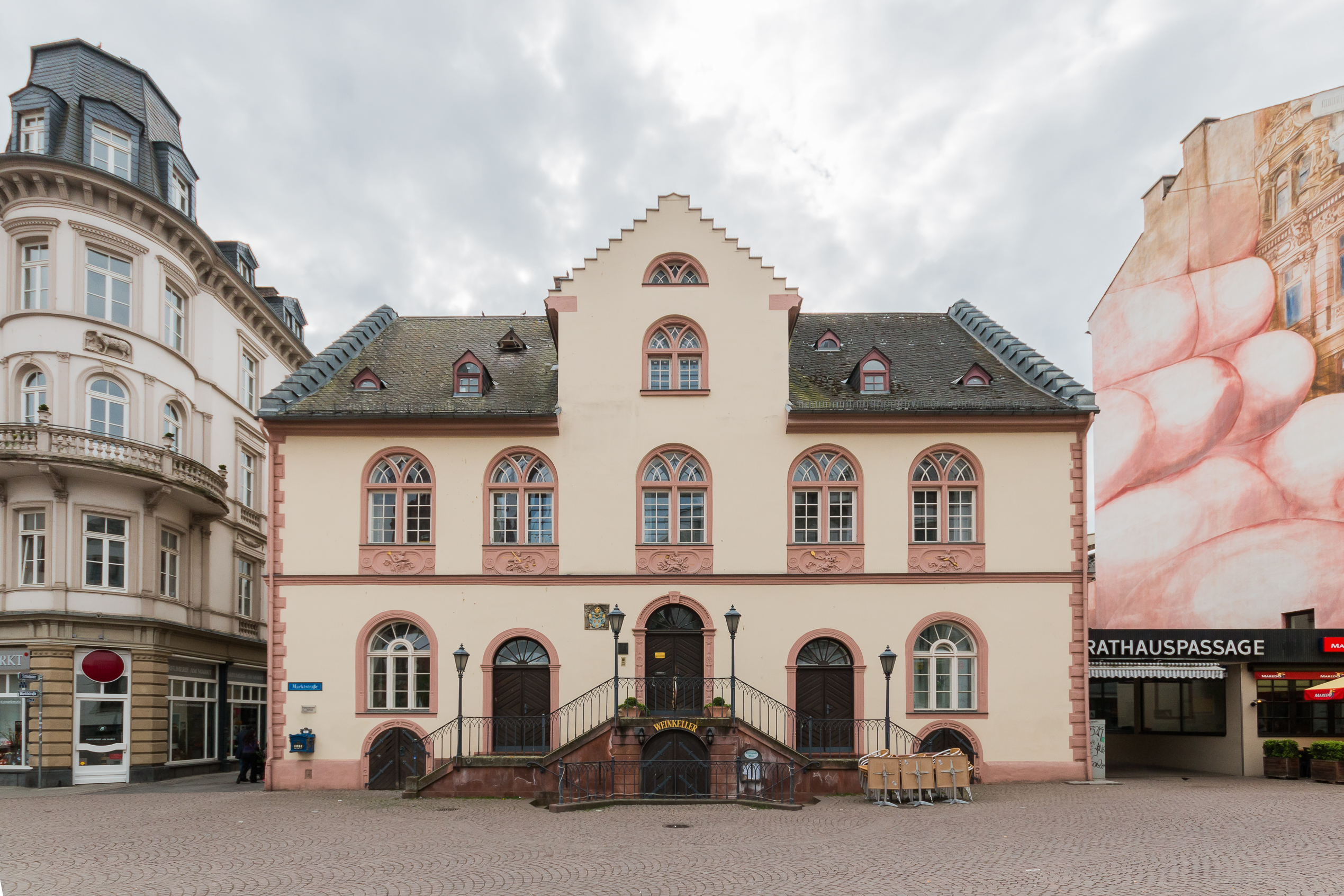 Altes Rathaus (old townhall) in Wiesbaden